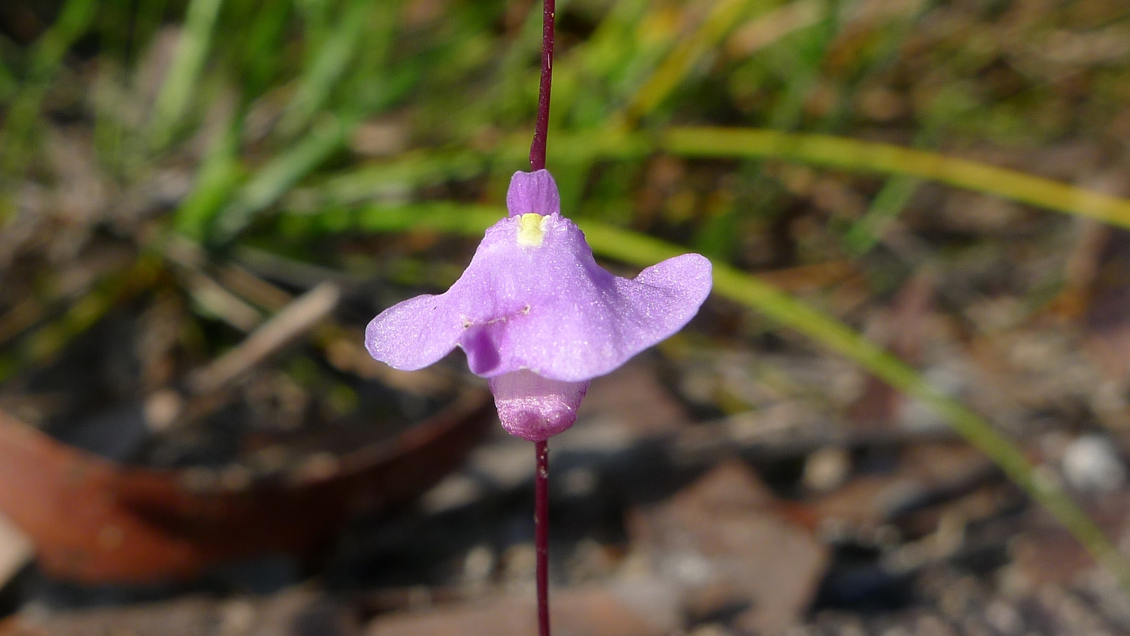 Small Bladderwort, Utricularia lateriflora. Limeburners Creek National Park, NSW Australia, December 2013.